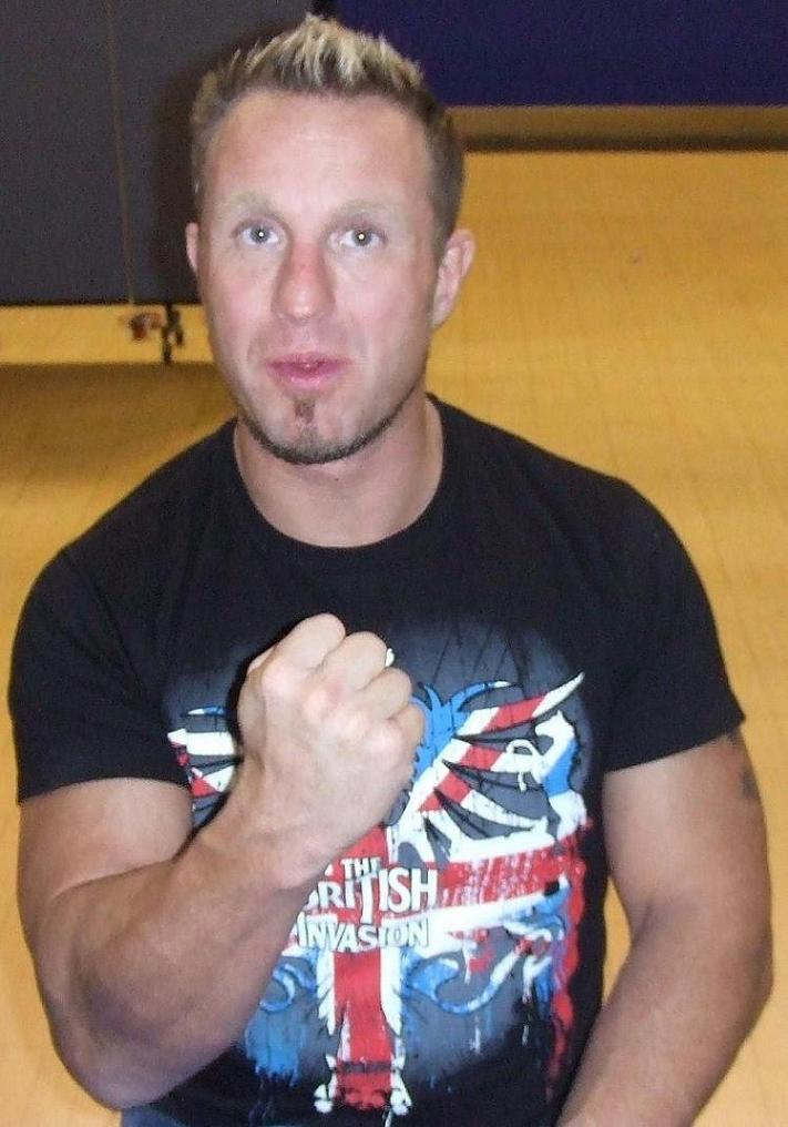 Picture of Doug Williams, taken by myself on 26th January 2010 at the Bournemouth International Centre in Bournemouth, England, before a TNA Wrestling event.